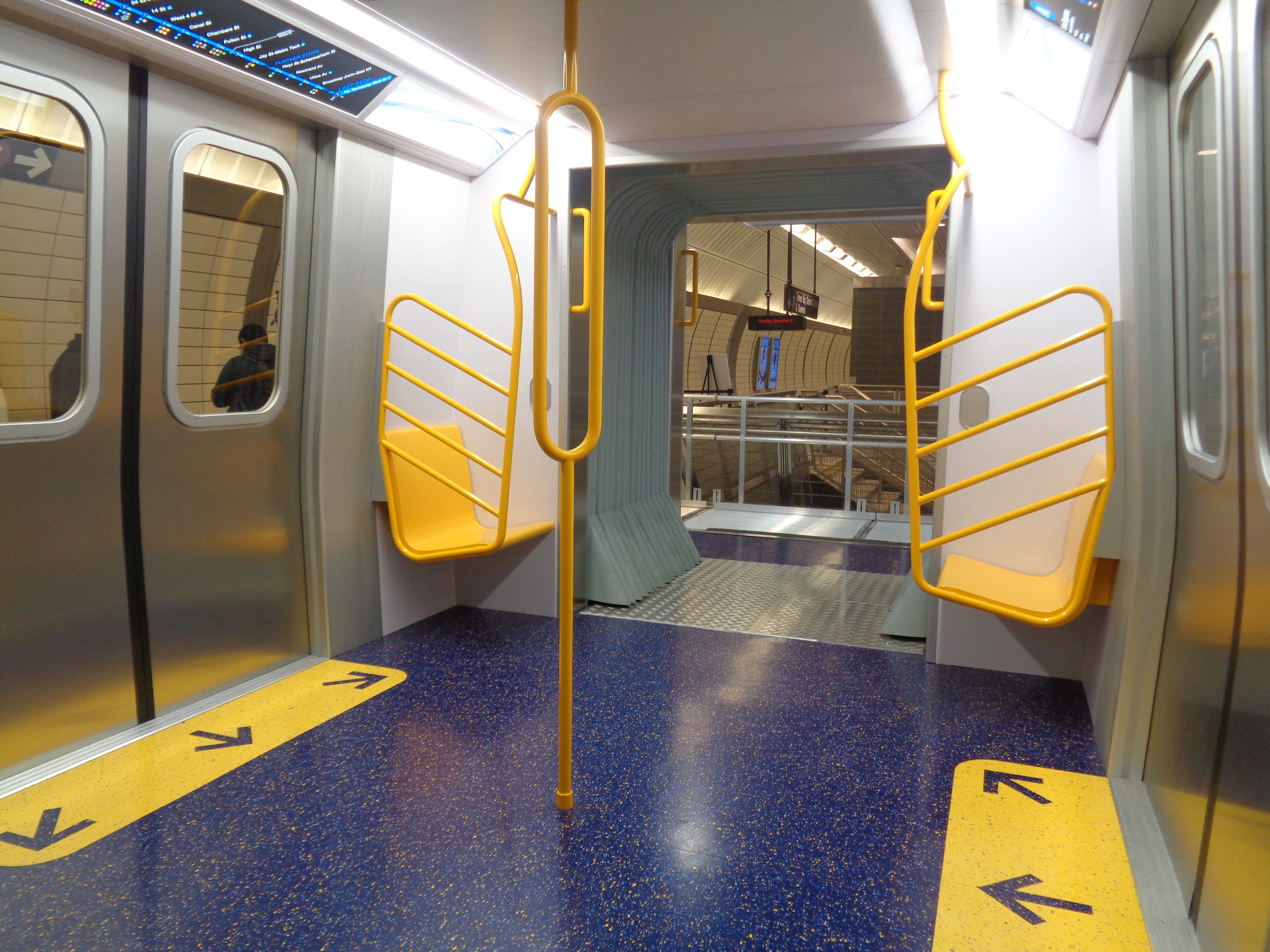 The R211 Open House in the lower mezzanine of the 34th Street – Hudson Yards subway station in Hudson Yards, Manhattan. Pictured is the interior of the open-gangway mockup.